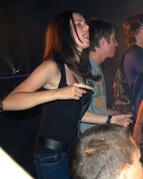 Actress Kaya Scodelario On The Stage in Skins Party 2007.